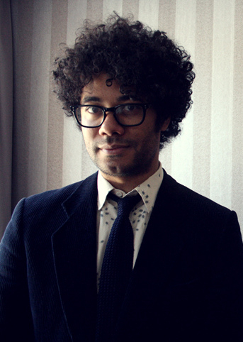 Richard Ayoade at the Soho Hotel, London.